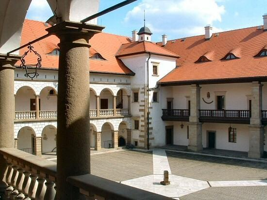 Court of Castle of Polish Kings in Niepołomice, 25 km from Kraków (Cracow)